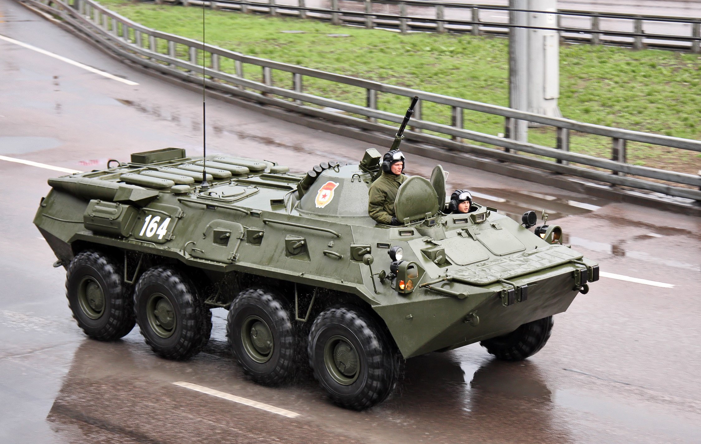 BTR-80